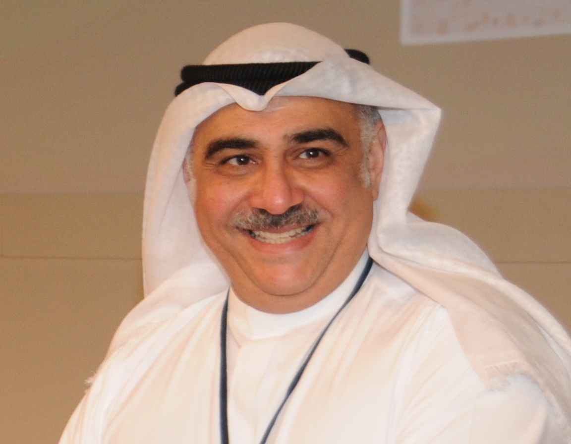 Adel Faqih (Adel Fakeih)